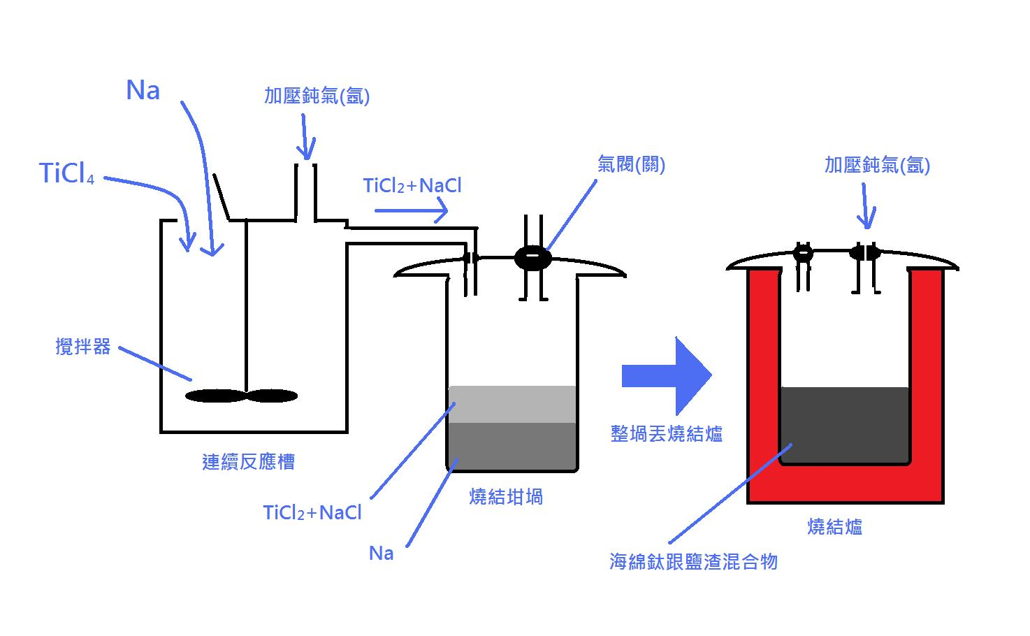 hunter process